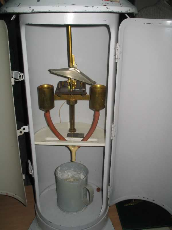 Electronic rain gauge (Nicolaus Copernicus University in Toruń)